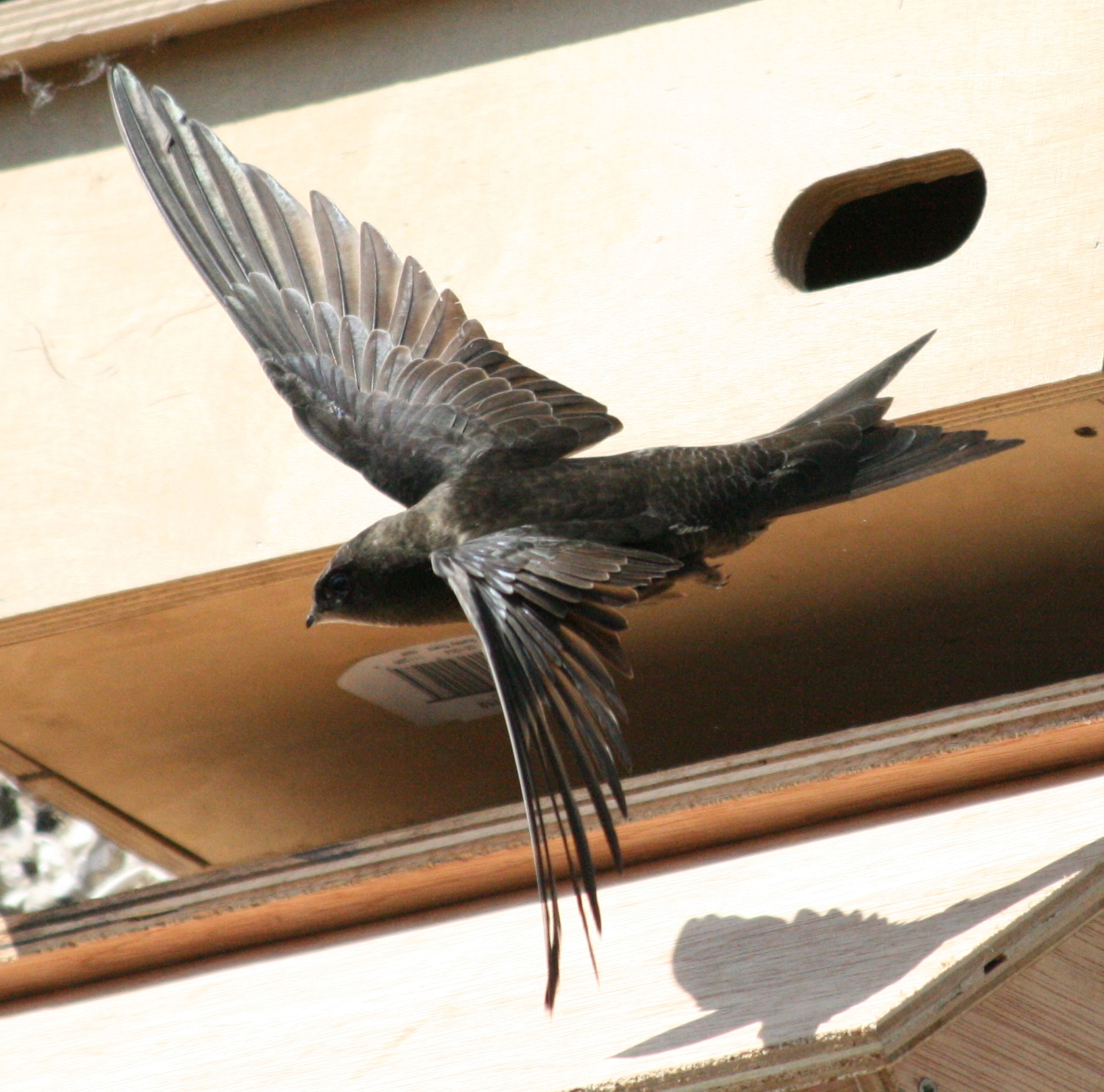 A Common Swift Apus apus retreating after inspecting an occupied nest box.